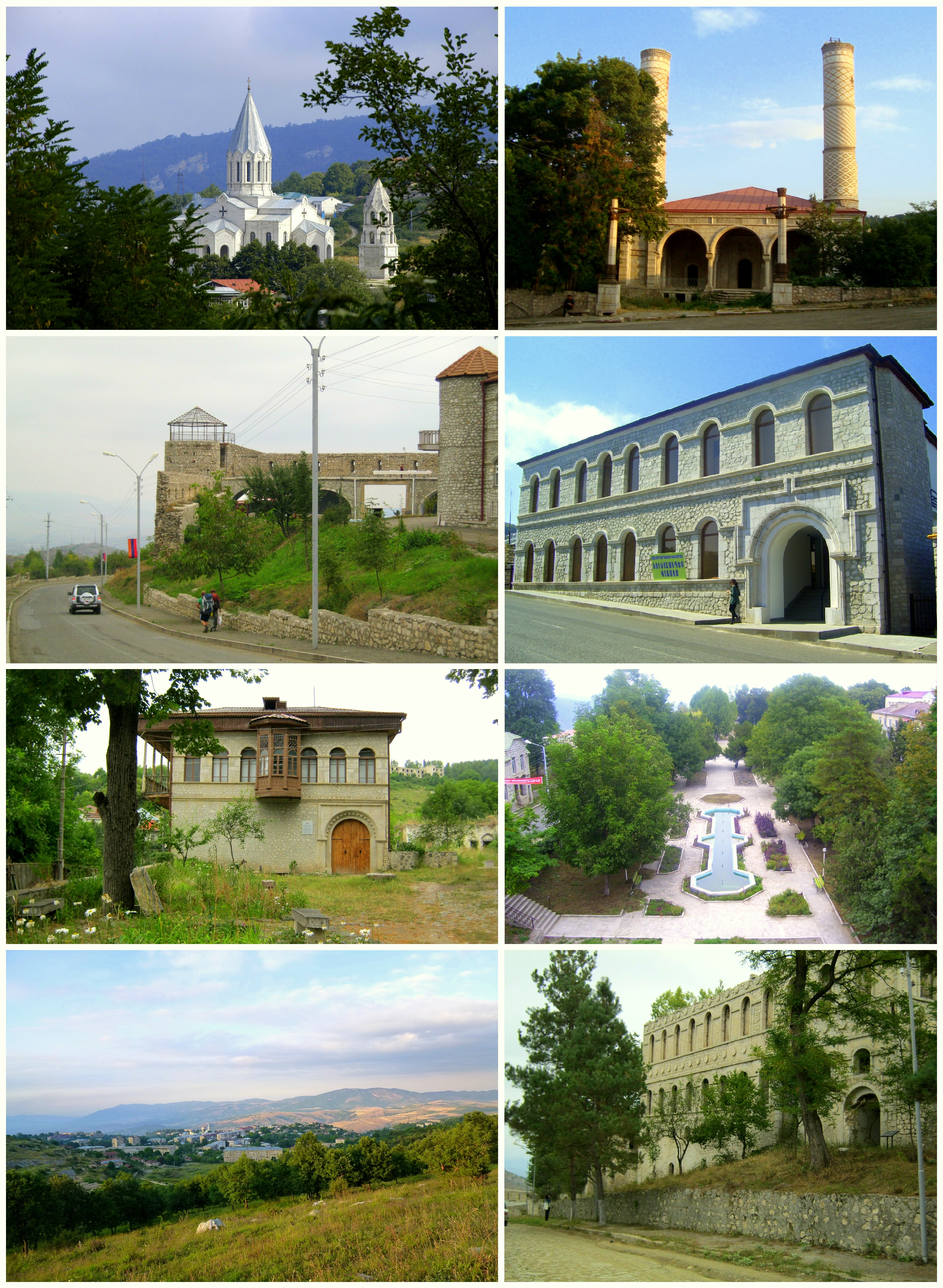 19th-century landmarks in the town of Shusha/Shushi, de jure part of Azerbaijan, de facto part of Nagorno-Karabakh Republic.